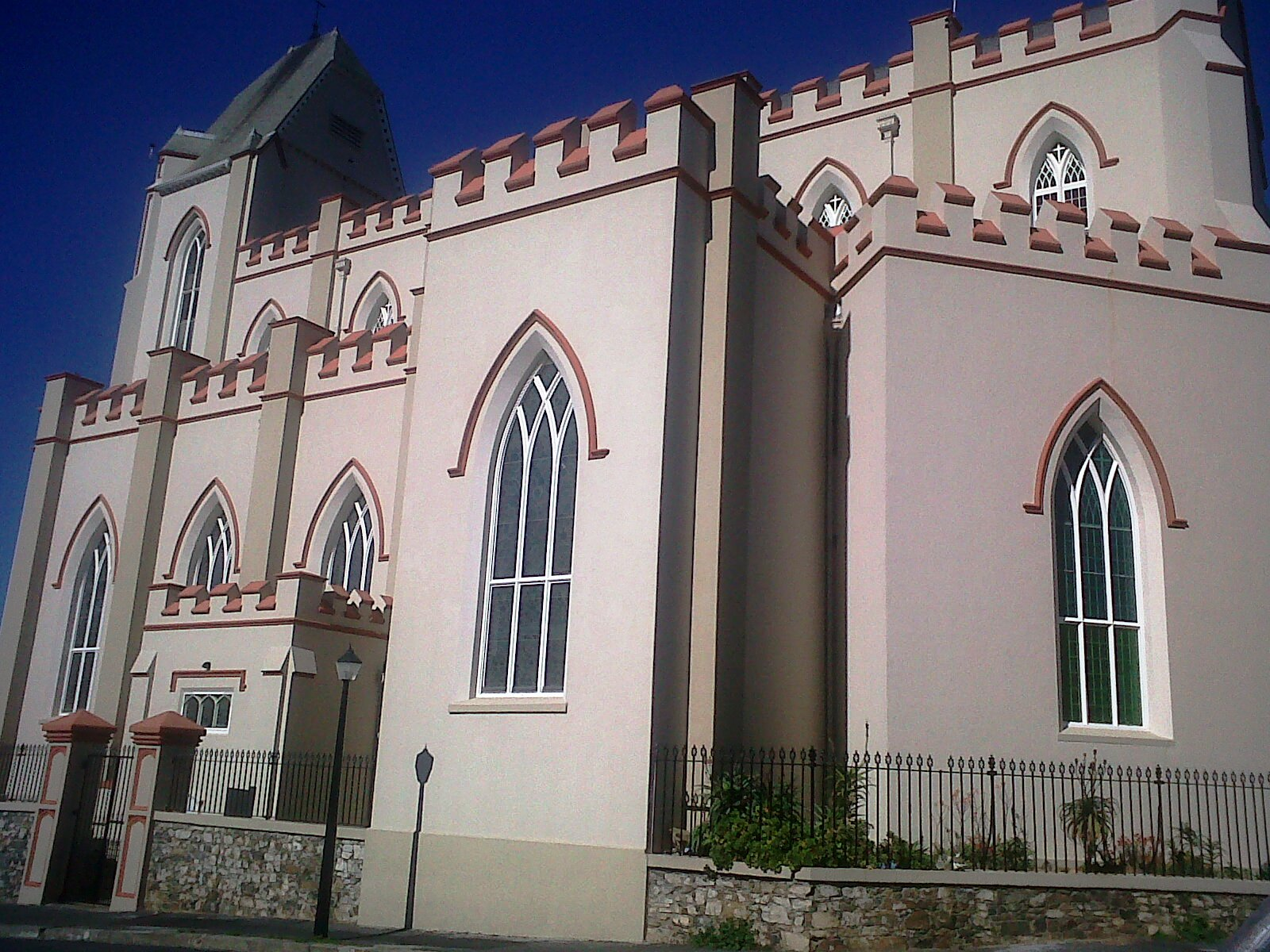 This media shows a South African Protected Site with SAHRA file reference 9/2/018/0236.